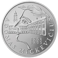 50 litas coin issued to commemorate the 200th birth Anniversary of Adomas Mickevičius (Adam Mickiewicz) Silver Ag 925 Quality proof Diameter 34.00 mm Weight 23.30 g The words on the edge of the coin: TEVYNE LIETUVA, MIELESNE UZ SVEIKATA* (original polish version: "Litwo Ojczyzno Moja, Ty jesteś jak zdrowie") The designer of the coin is Algirdas Bosas Mintage 4,000 pcs Issued 1998 Distribution terminated 2003 Distributed 2,860 pcs The coin was minted at the state enterprise Lithuanian Mint.